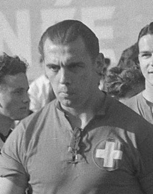 Alfred Bickel in 1950.